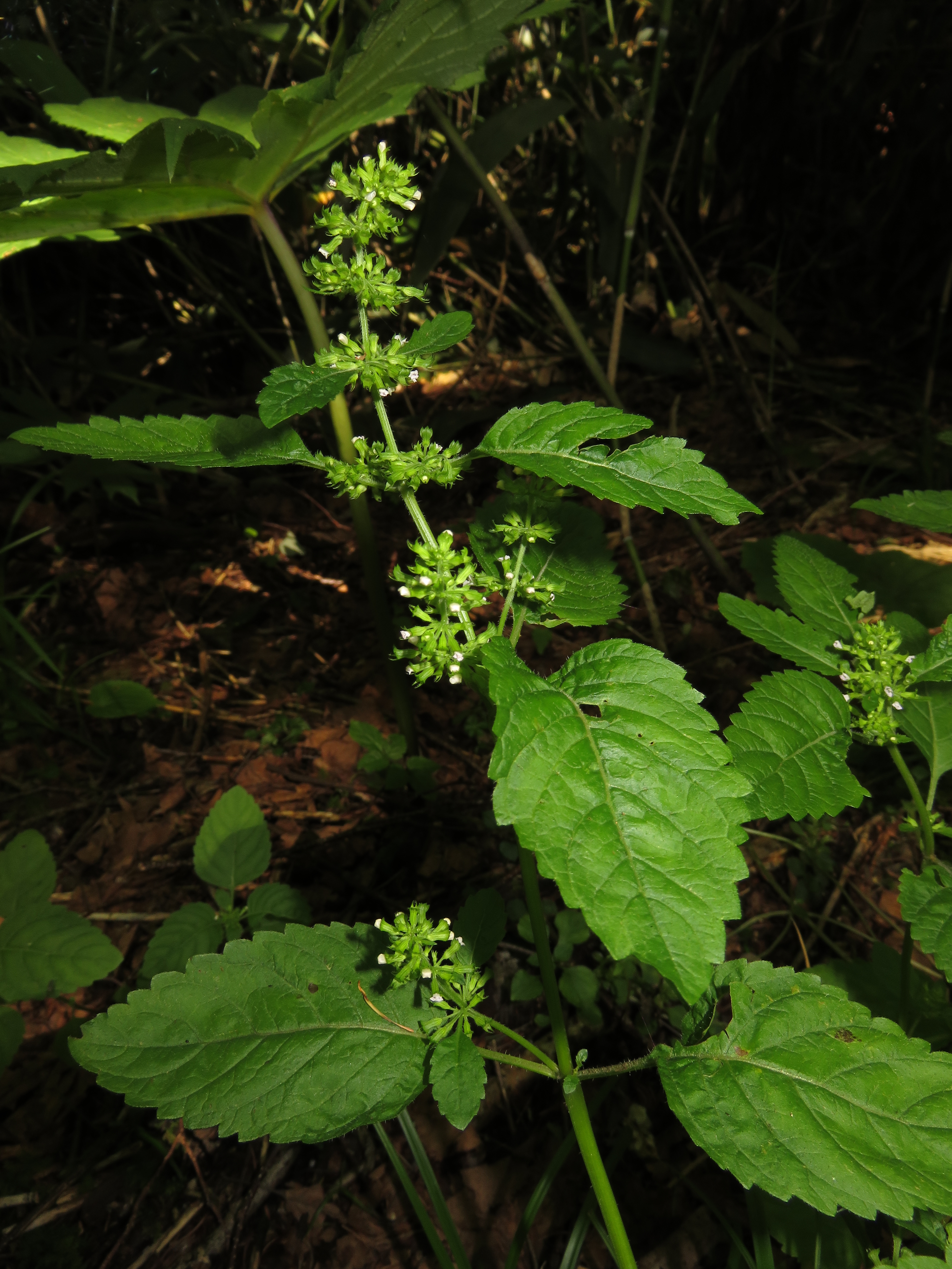 Clinopodium micranthum var. sachalinense, Aizu area, Fukushima pref., Japan